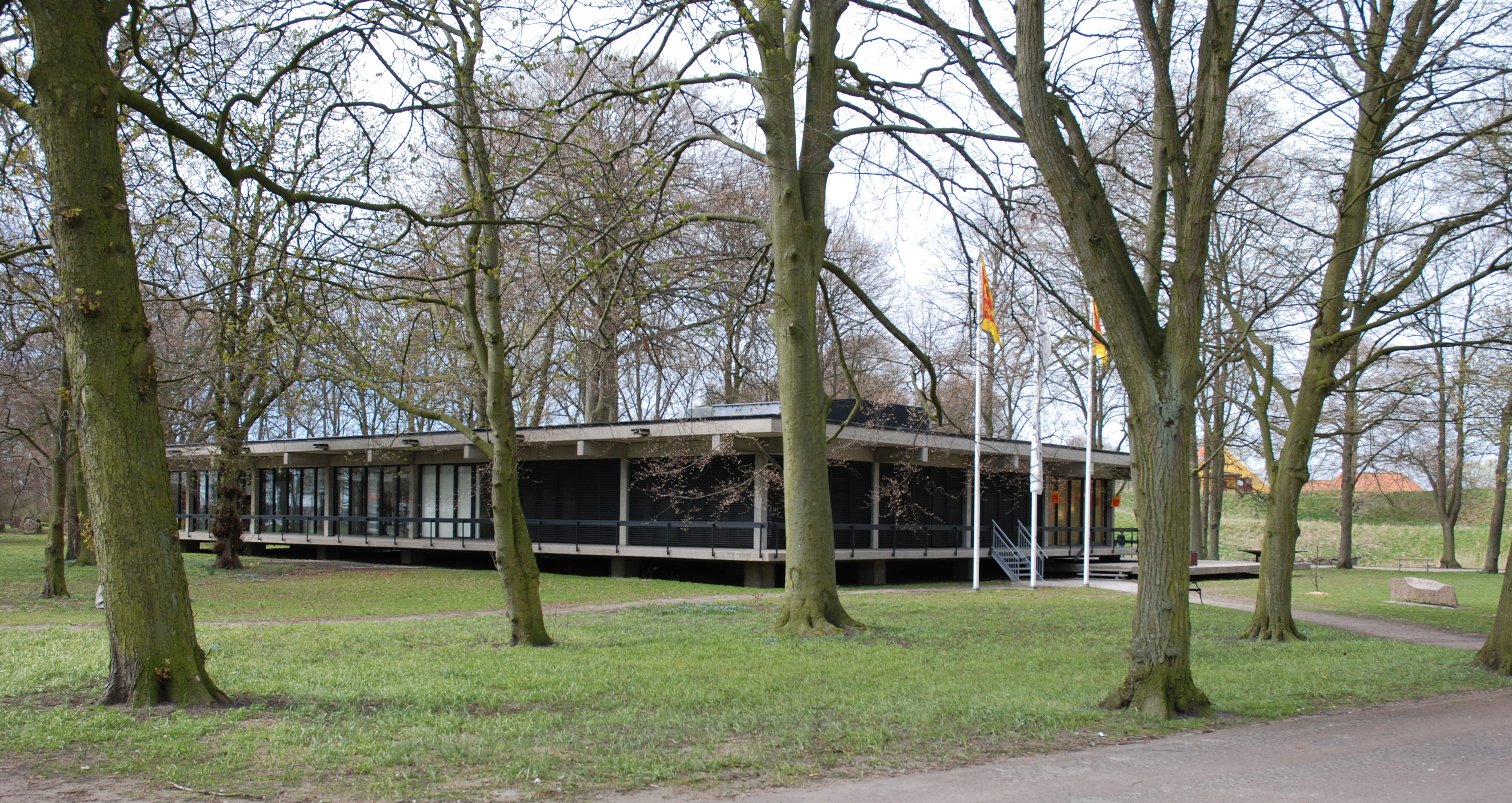 Landskrona Konsthall (Landskrona Art Gallery), Sweden. Architects: Sten Samuelsson & Fritz Jaenecke